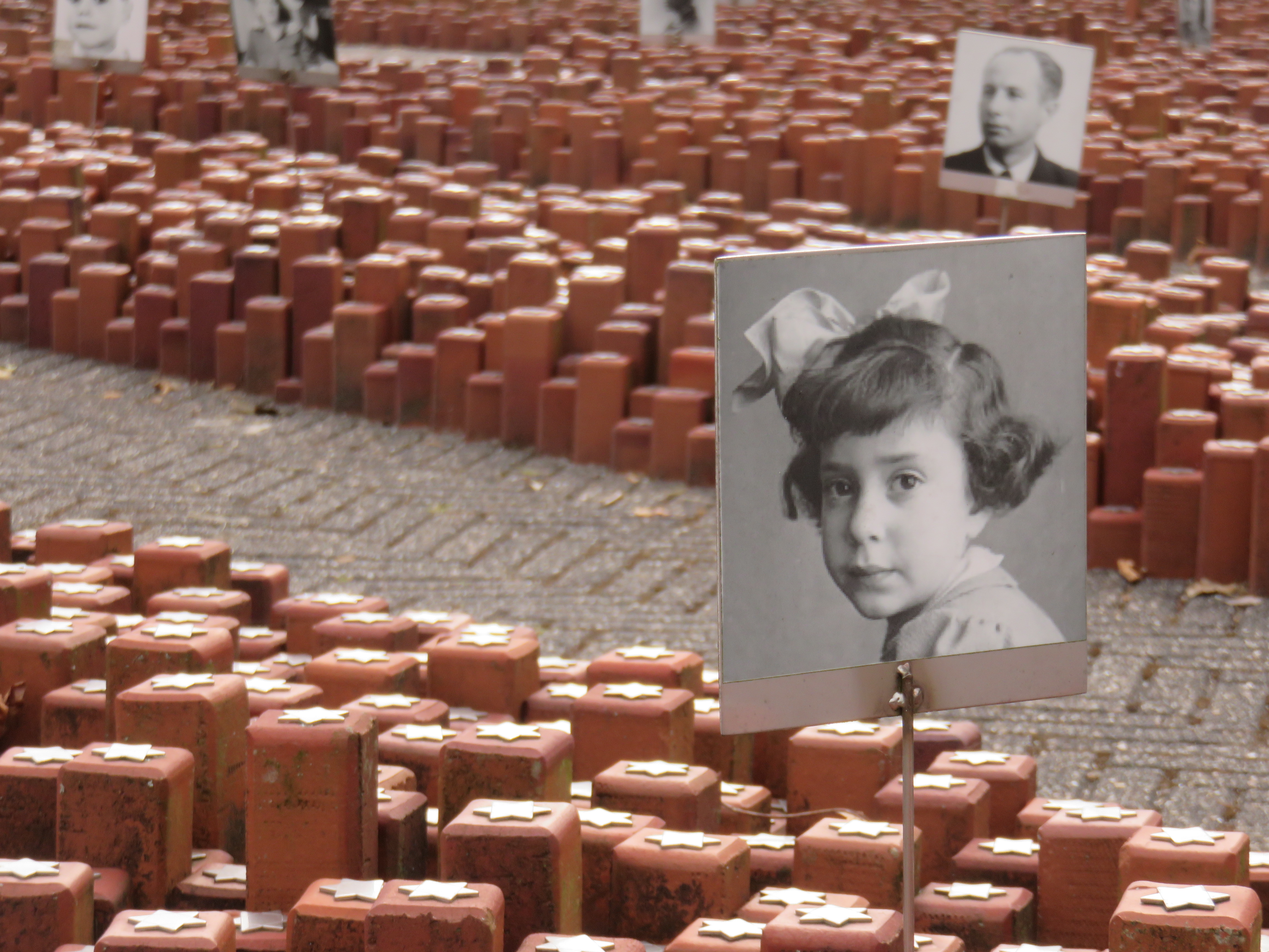 Westerbork, concentration camp - Netherland 2016